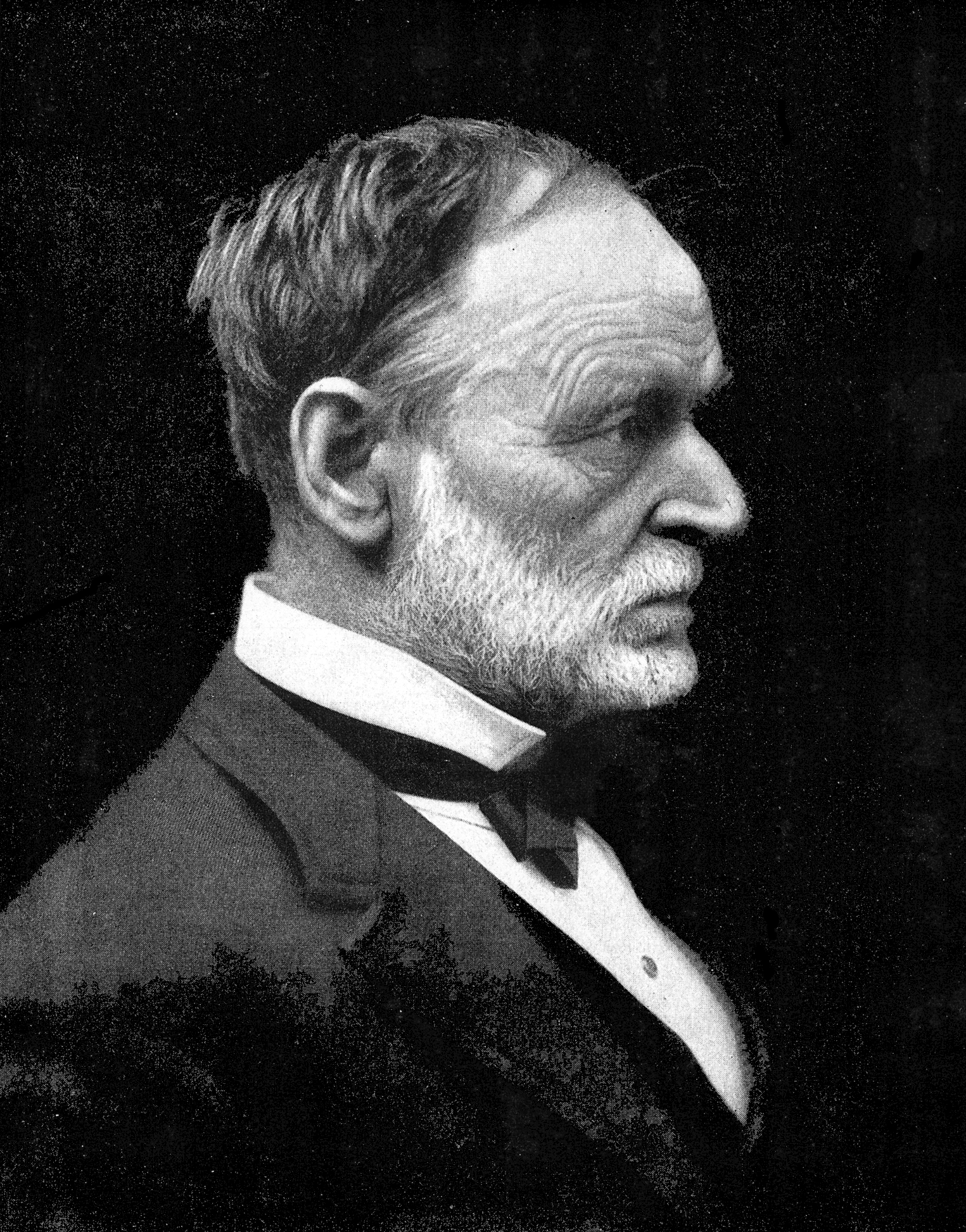 A black and white profile photograph mostly of William Tecumseh Sherman's head. The photograph is from his later years and he is in civilian evening dress.